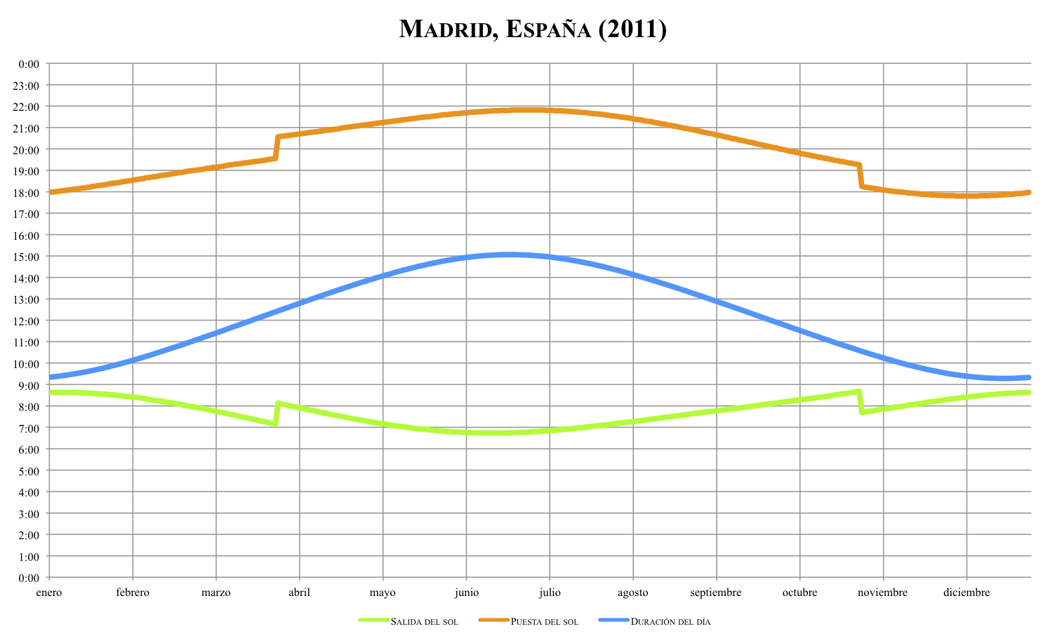 Day length, sunrise and sunset in Madrid (2011)